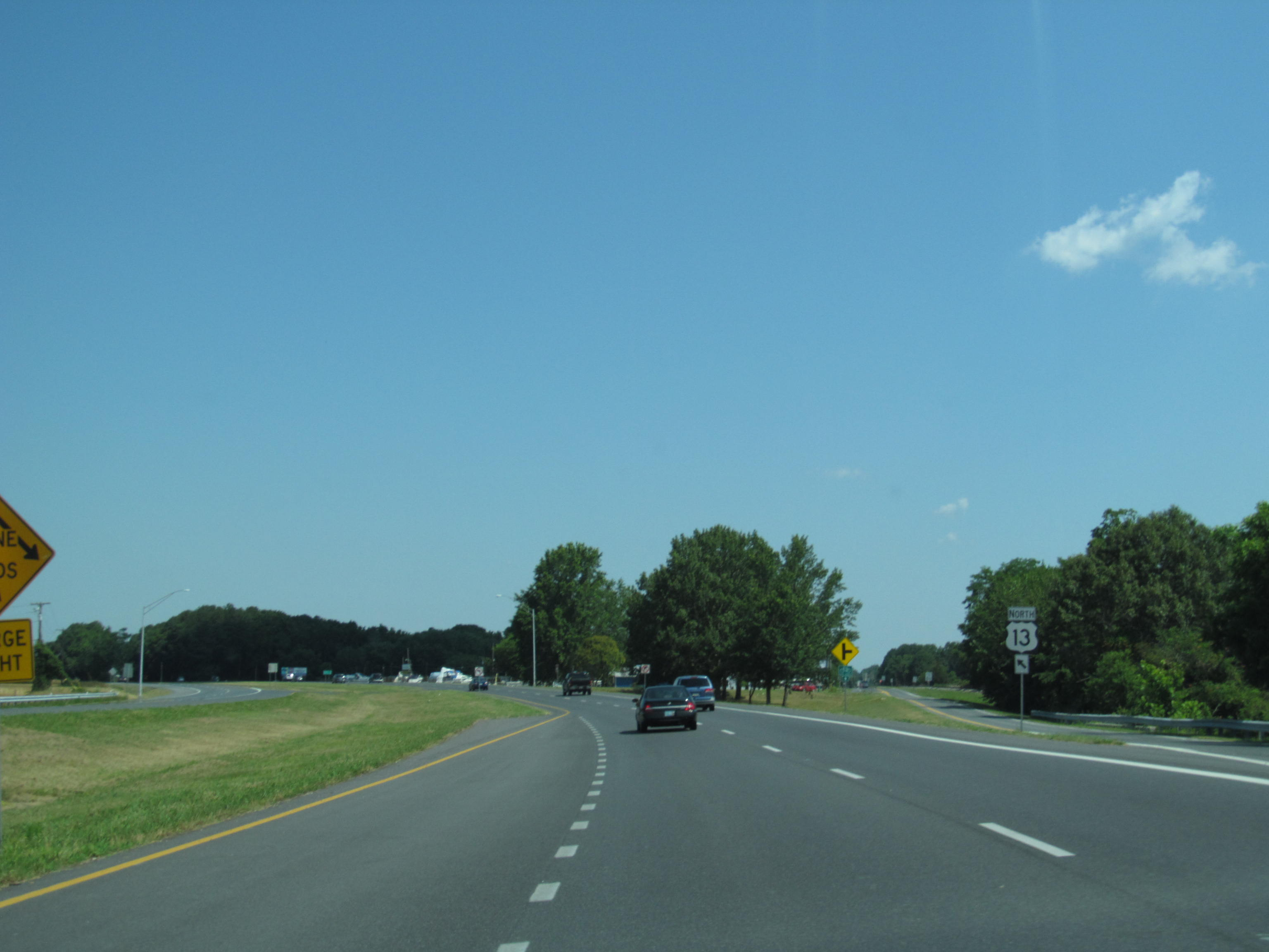 US Route 13 - Maryland